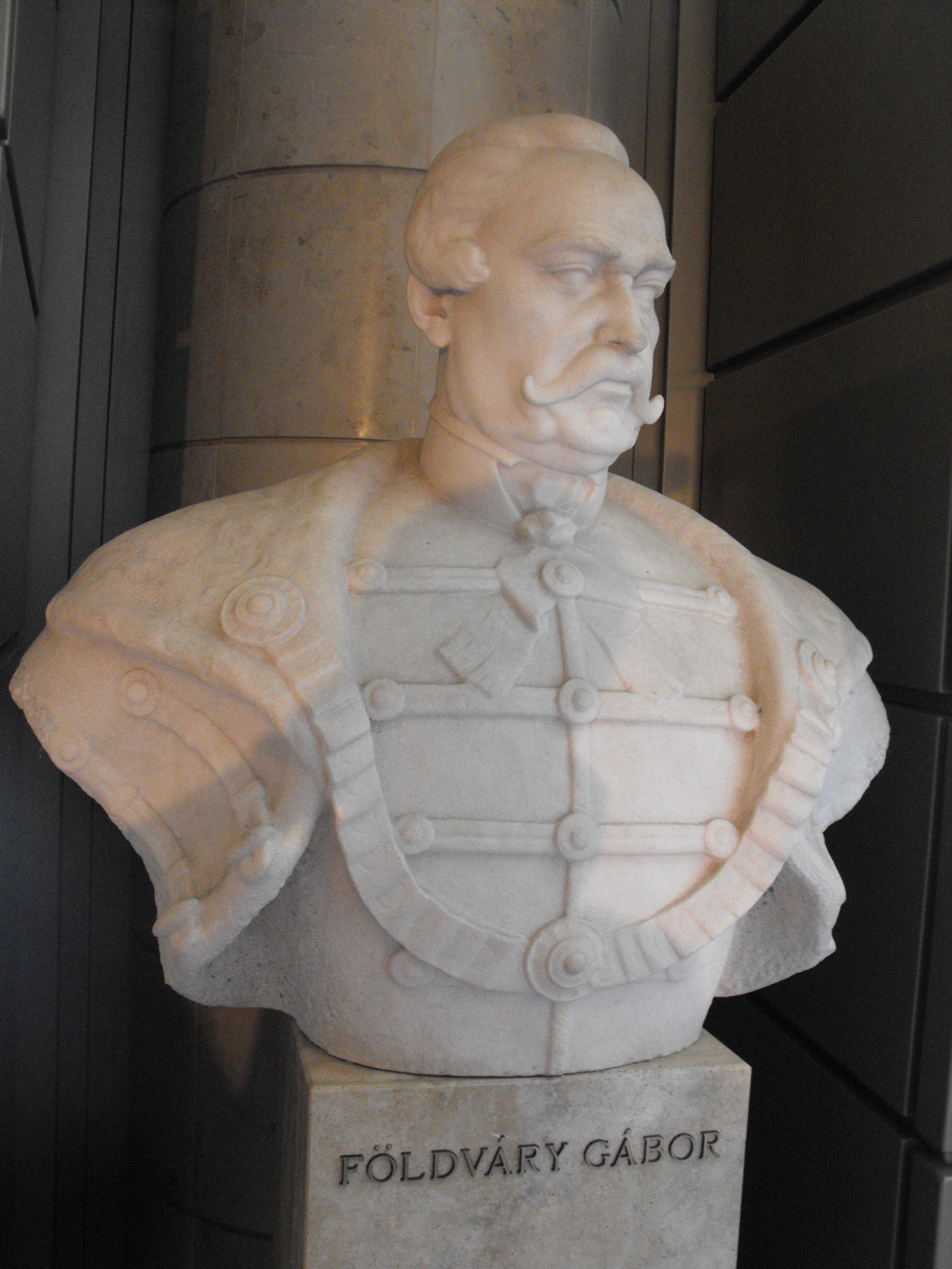 Statue of Gábor Földváry, imperial and royal advisor in the National Theatre, Budapest, Hungary.